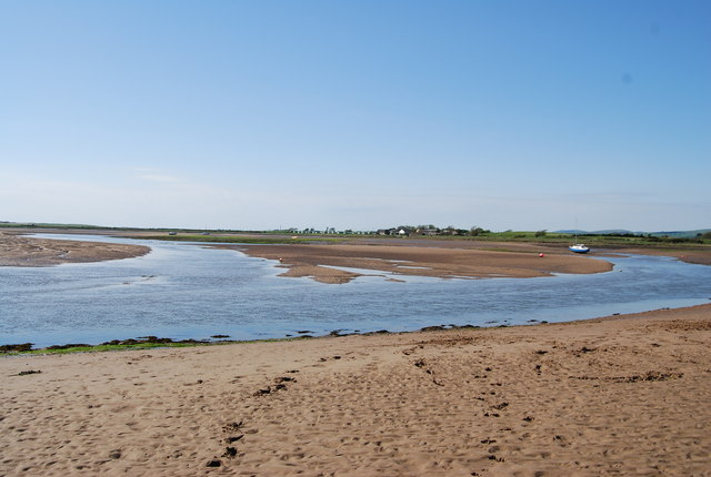 Junction of the Rivers Irt & Mite